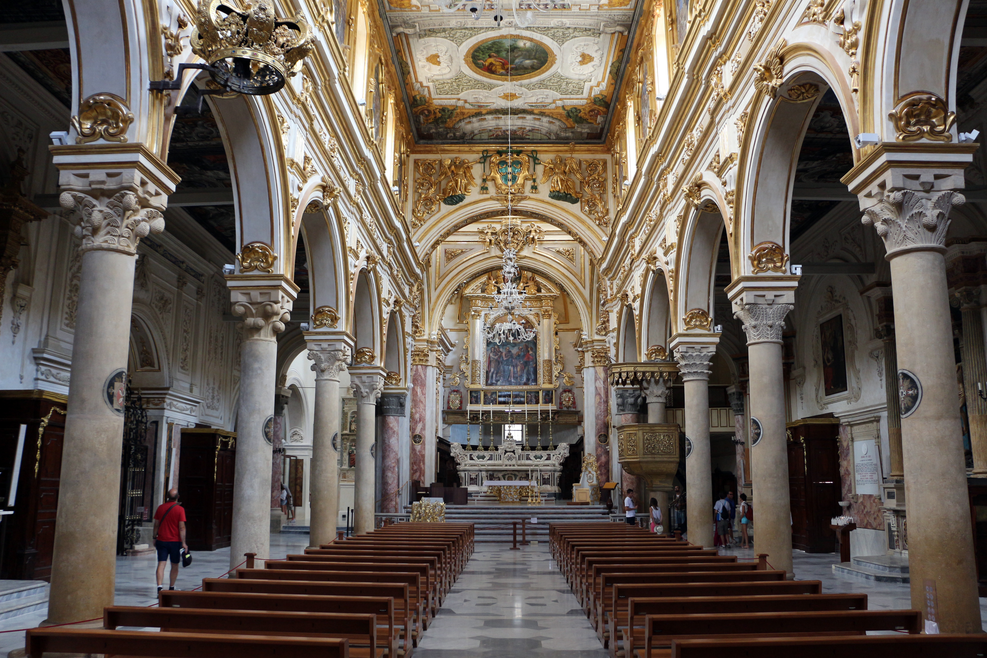 Cathedral (Matera)